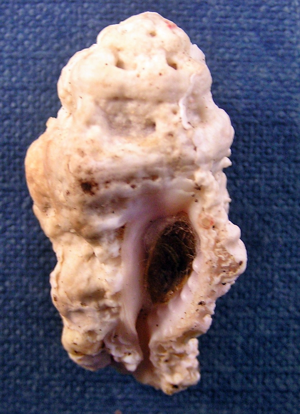 Muricodrupa jacobsoni Emerson & D'Attilio, 1981 , a murex snail from the family Muricidae; Philippines